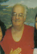 Arthur Shawcross and daughter and granddaughter at Sullivan Correctional Facility.